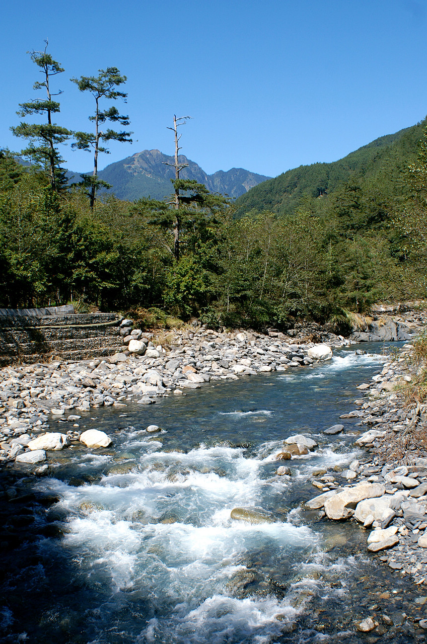 Cijiawan River. Tao Mountain can be seen on the left in the far distance.